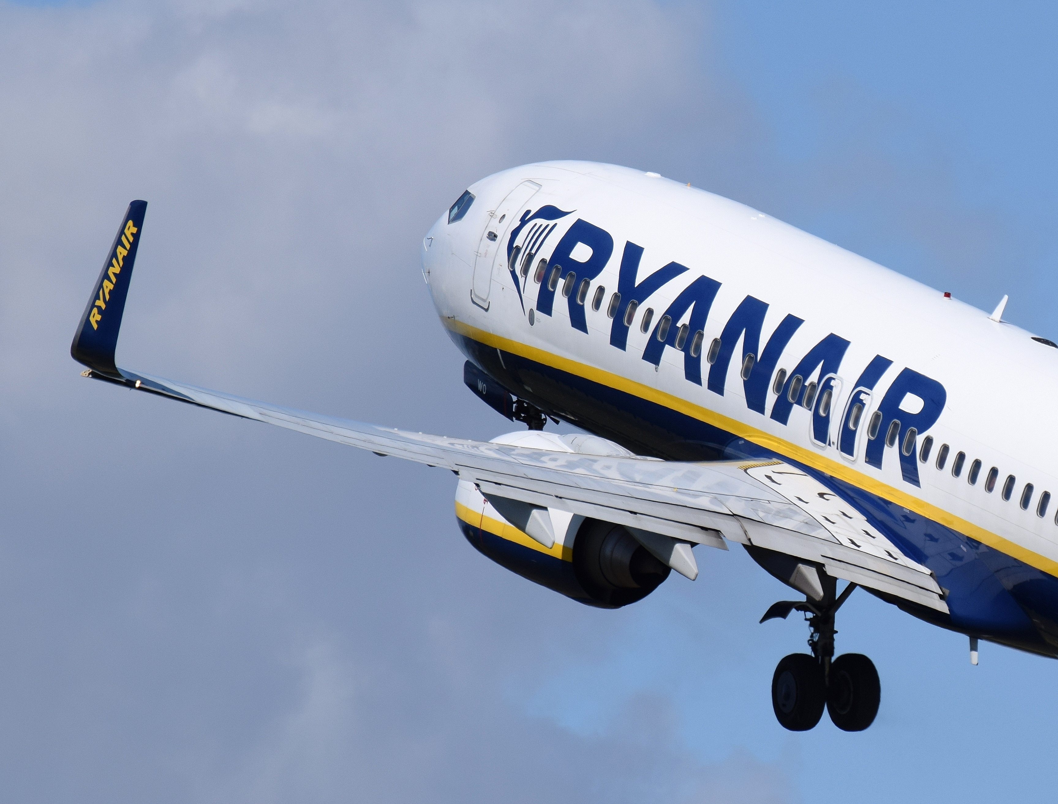 Ryanair Boeing 737-800 (EI-DWO) takes off from Bristol Airport, England.